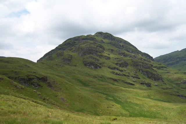 East face of Stob na Boine Druim-fhinn The rocky east face of Stob na Boine Druim-fhinn rises above the surrounding grassy slopes.